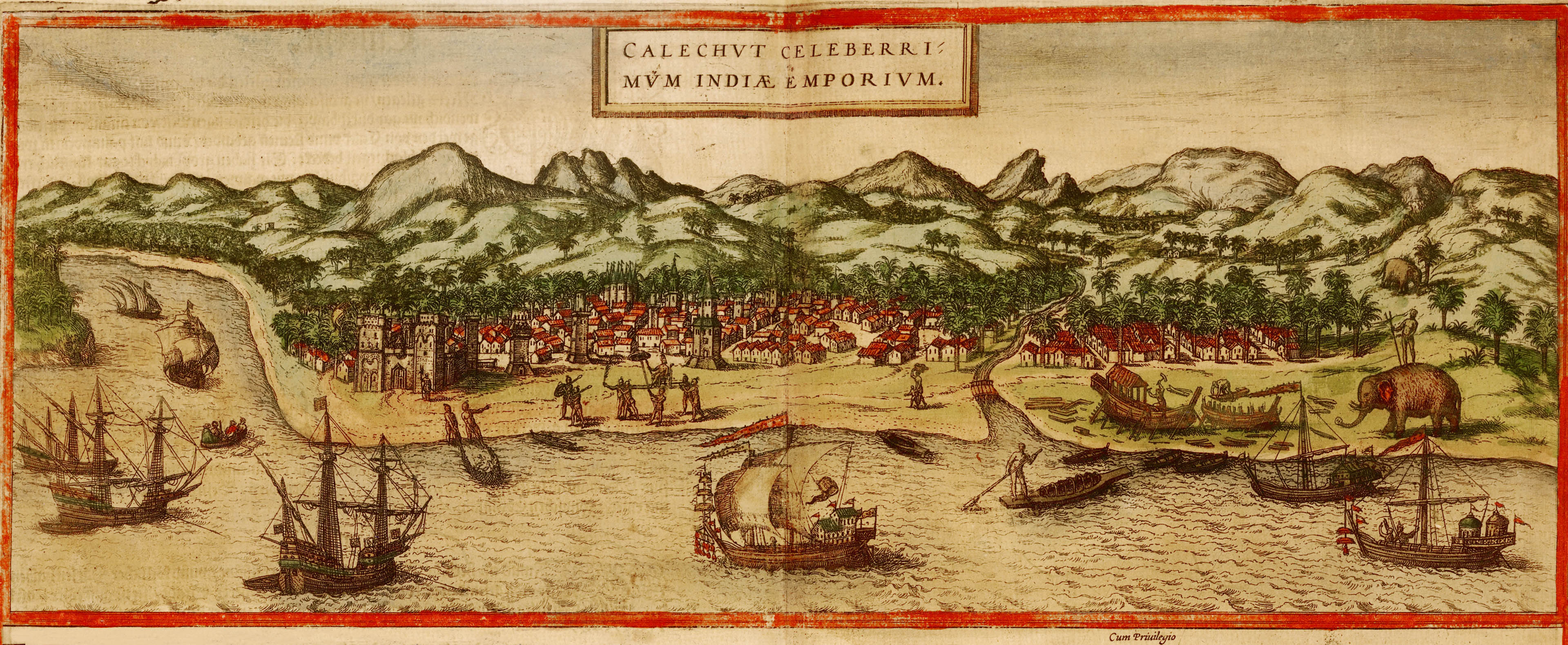 A panorama of Calicut, on the Malabar coast, shows several types of ships, shipbuilding, net fishing, dinghy traffic and a rugged, sparsely populated interior. Georg Braun and Franz Hogenbergs atlas Civitates orbis terrarum, 1572